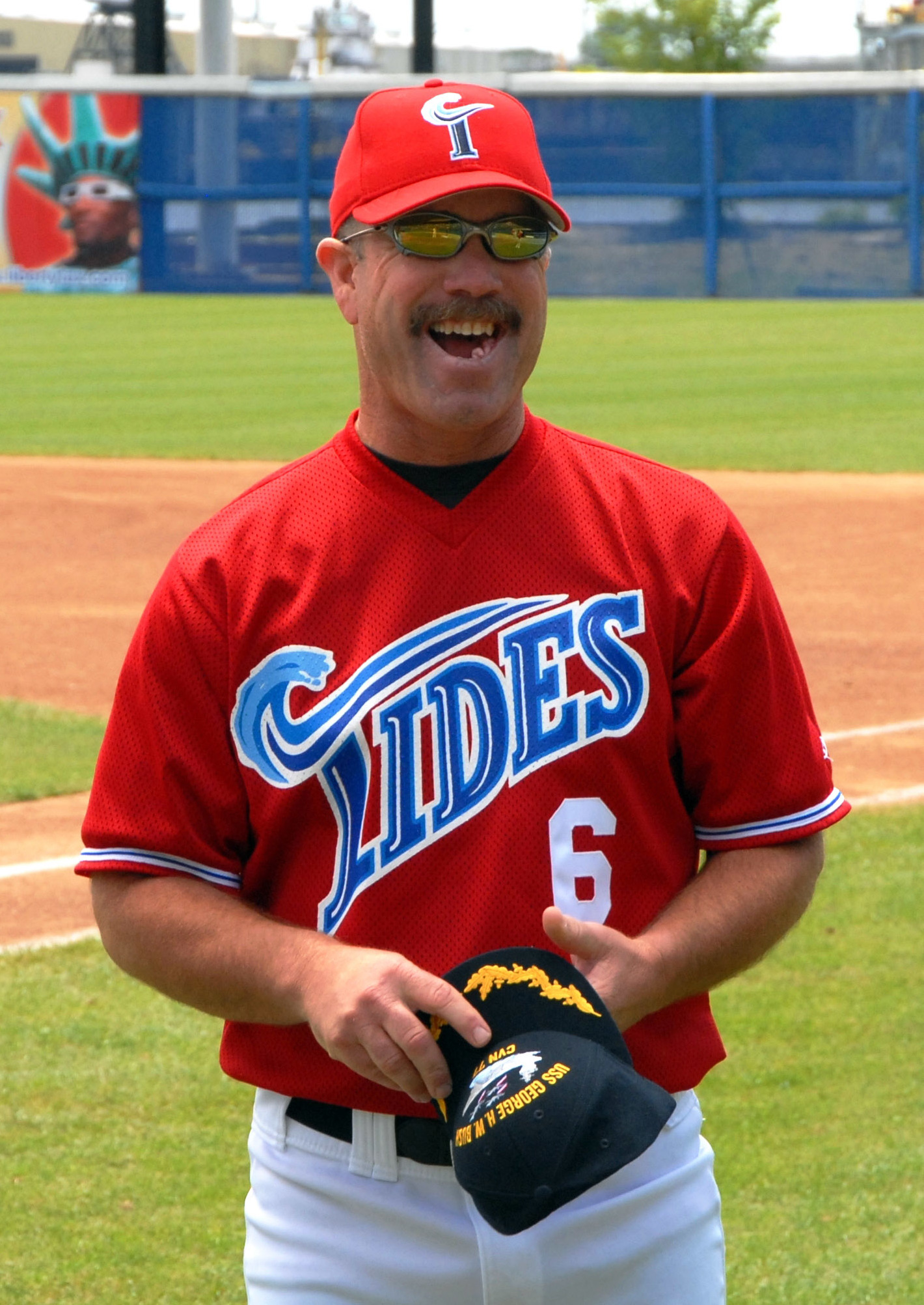 NORFOLK, Va. (May 22, 2007) — Precommissioning Unit George H.W. Bush (CVN-77) Commanding Officer Capt. Kevin O’Flaherty shares a laugh and exchanges ball caps with Norfolk Tides’ Manager Gary Allenson before the minor league baseball game. More than 500 Sailors and family members attended the baseball game between the Tides and the Rochester Red Wings. O’Flaherty threw out the ceremonial first pitch before the game.